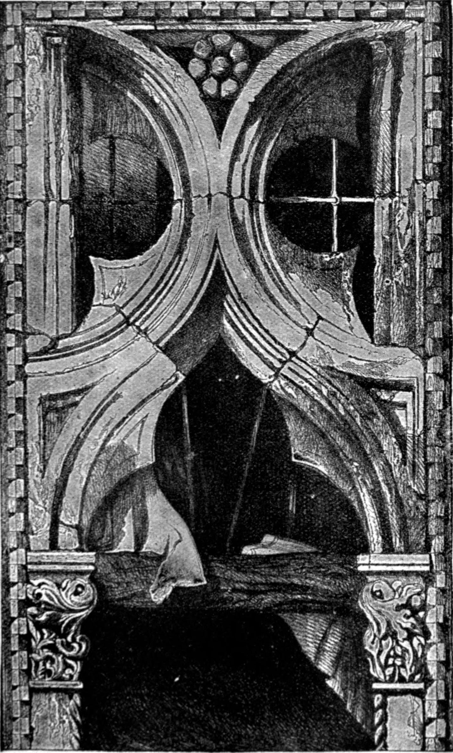 Plates from the Seven Lamps of Architecture - "Window from the Ca' Foscari, Venice"